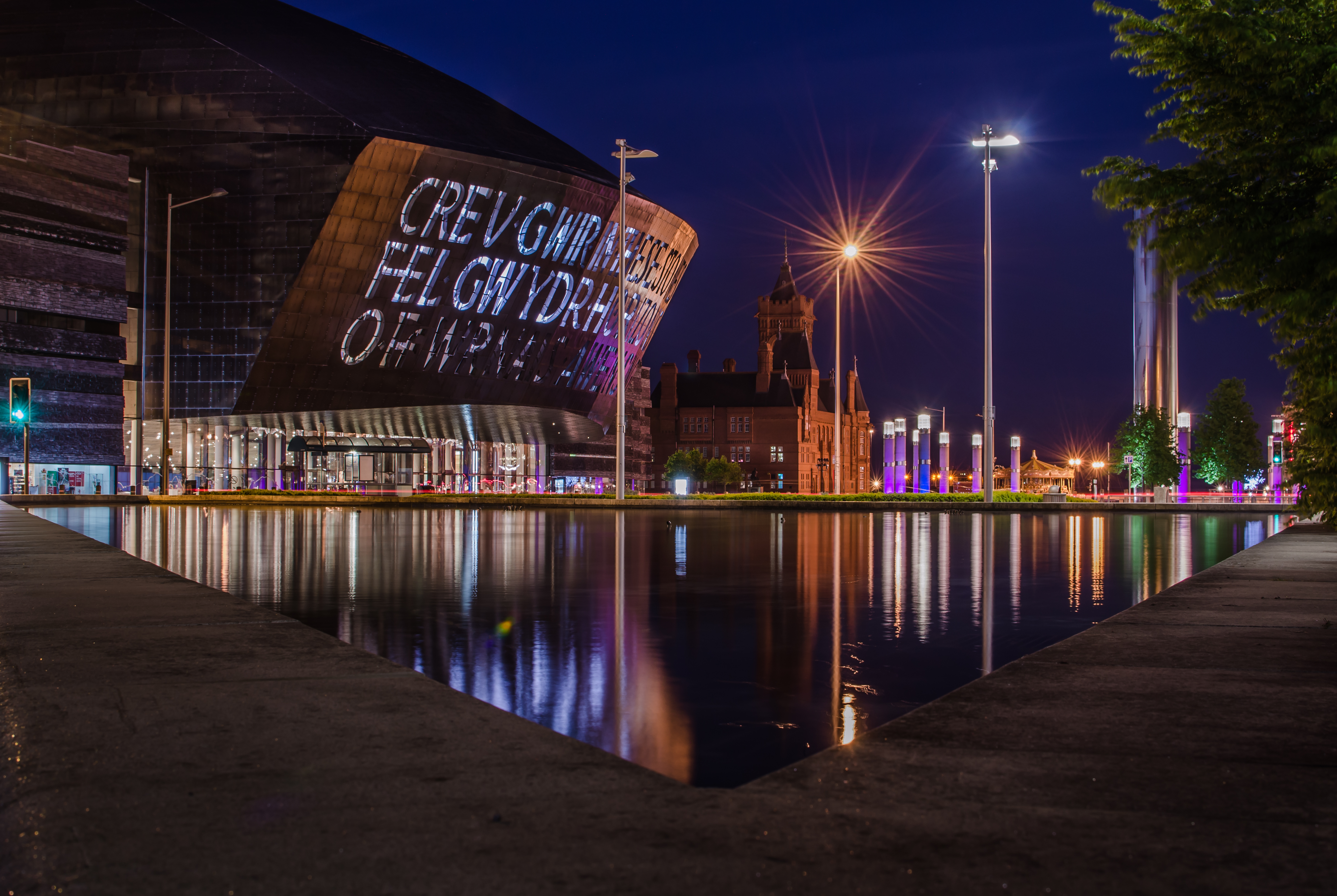 The Millennium Centre, in Cardiff.